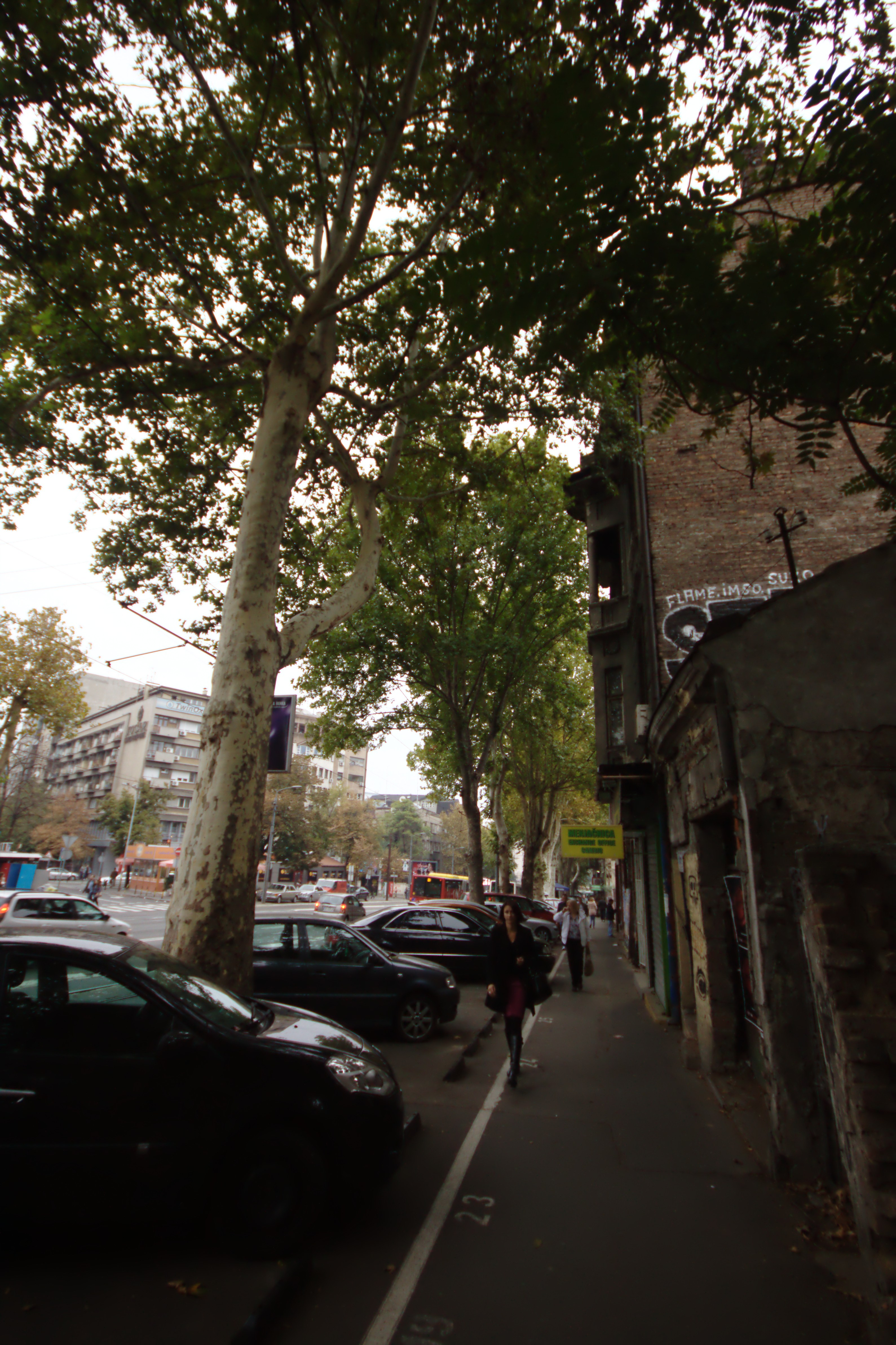 Central part of Belgrade, Serbia